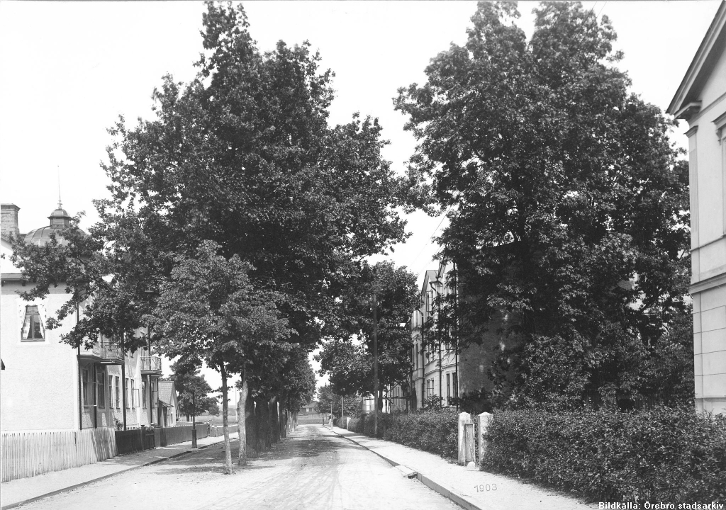 The street "Faktorigatan" in Örebro, Sweden